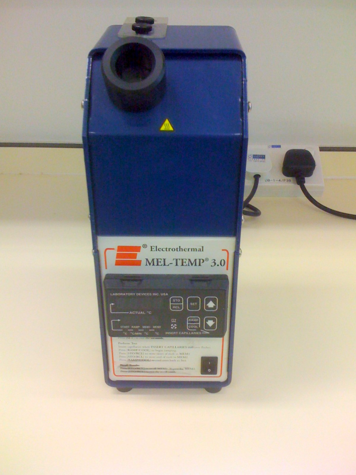 Melting point apparatus